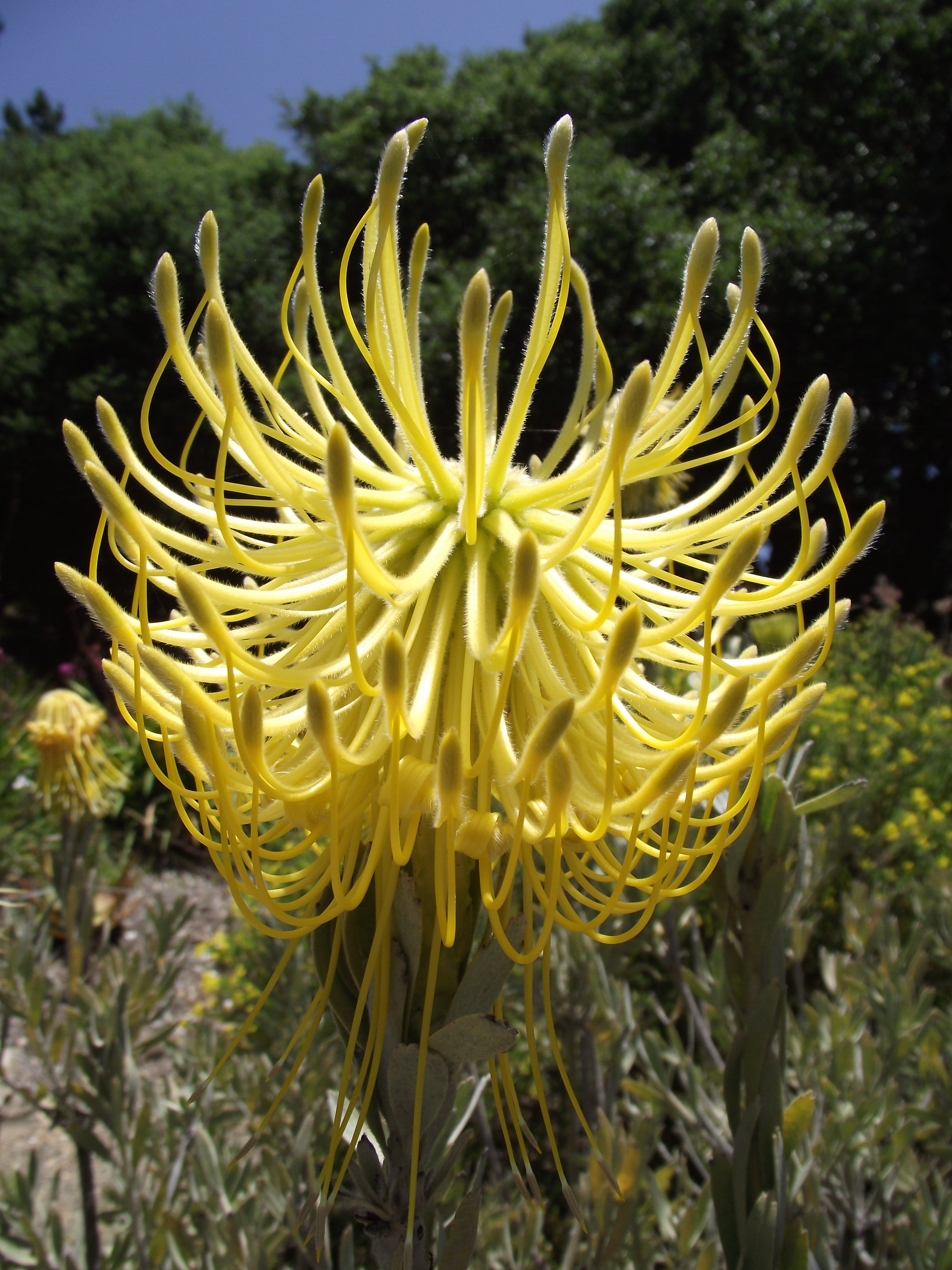 Leucospermum reflexum at the UC Botanical Garden, Berkeley, California, USA. Identified by sign.